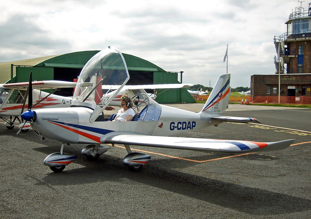 Evektor EV-97 light aircraft at Manchester (Barton) Aerodrome showing the 1933-built control tower and a hangar.